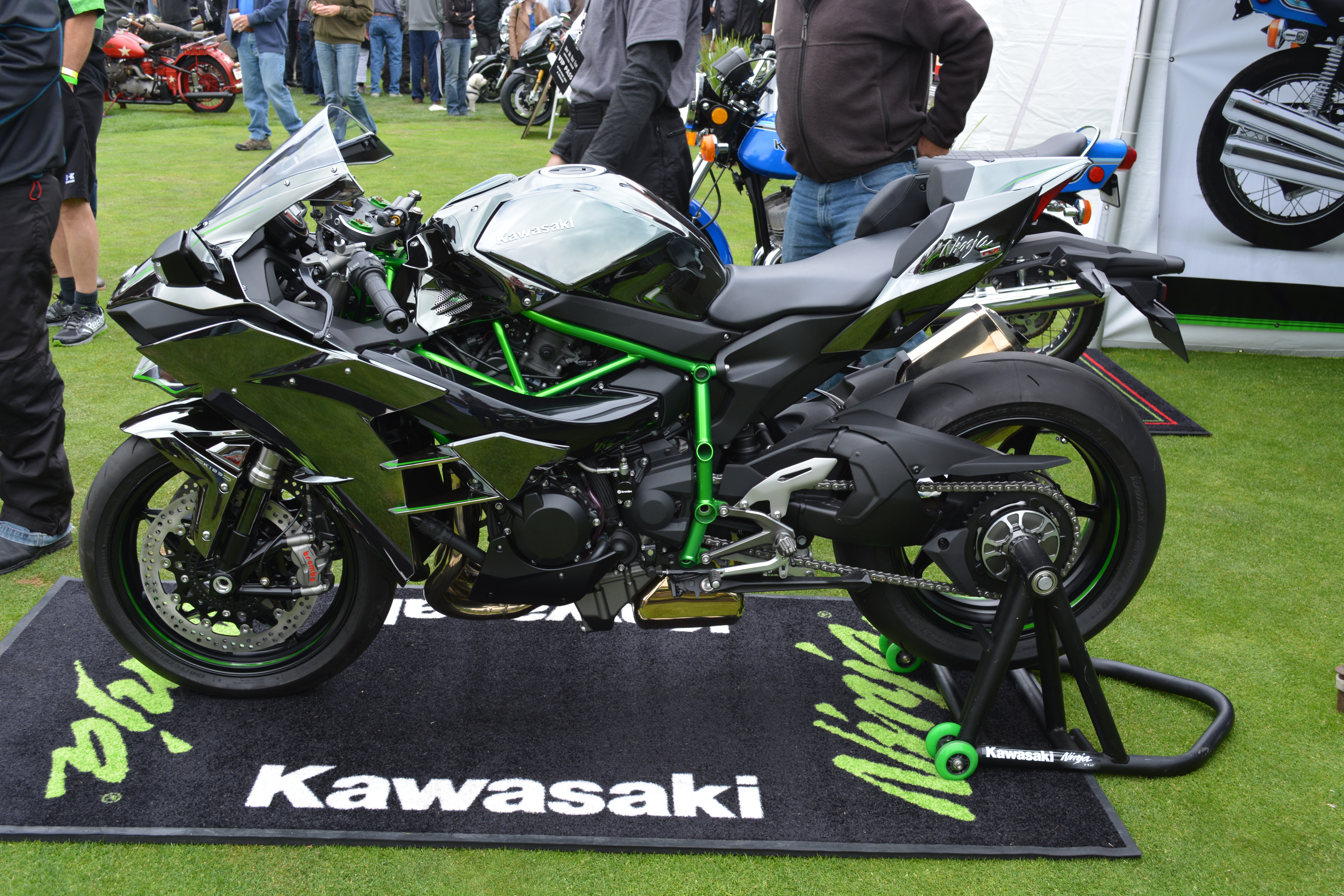 The Quail Motorcycle Gathering 2015, Carmel by the Sea, CA